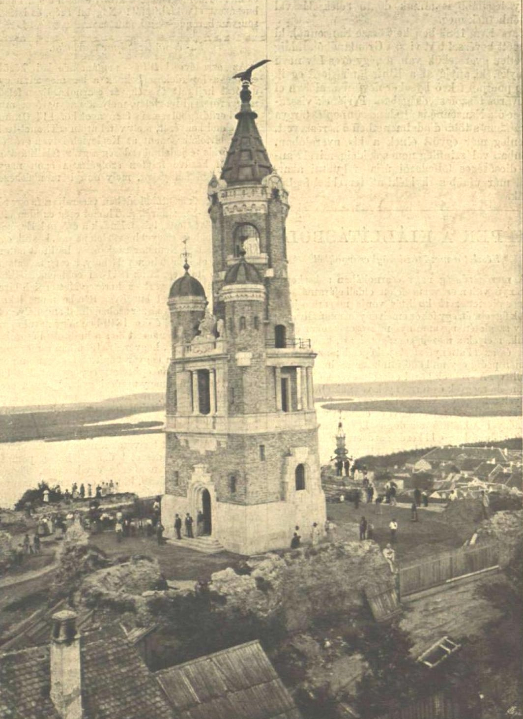 Millennium monument in Zemun, Serbia